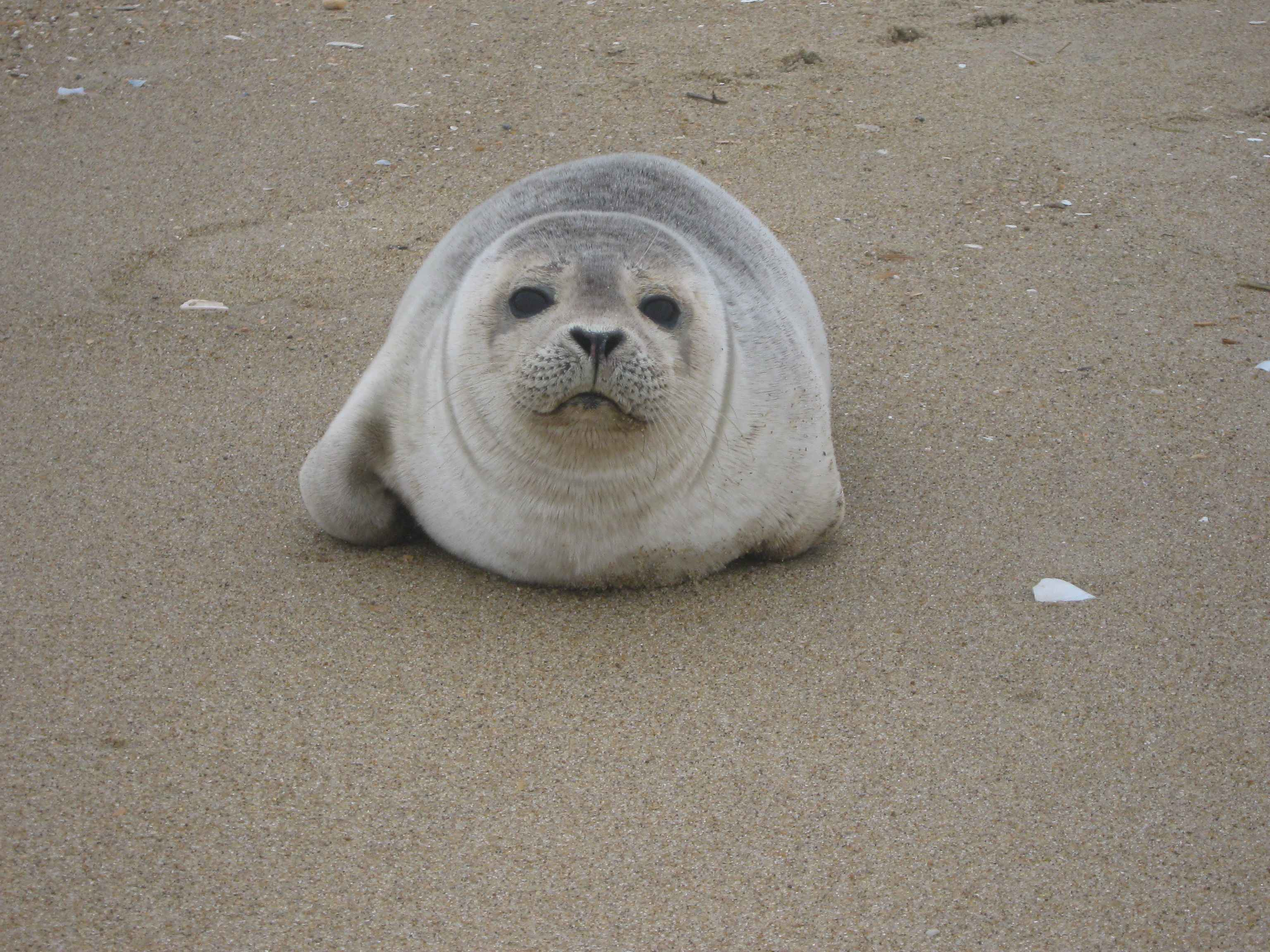 Image title: Seal pup cute marine mammal Image from Public domain images website